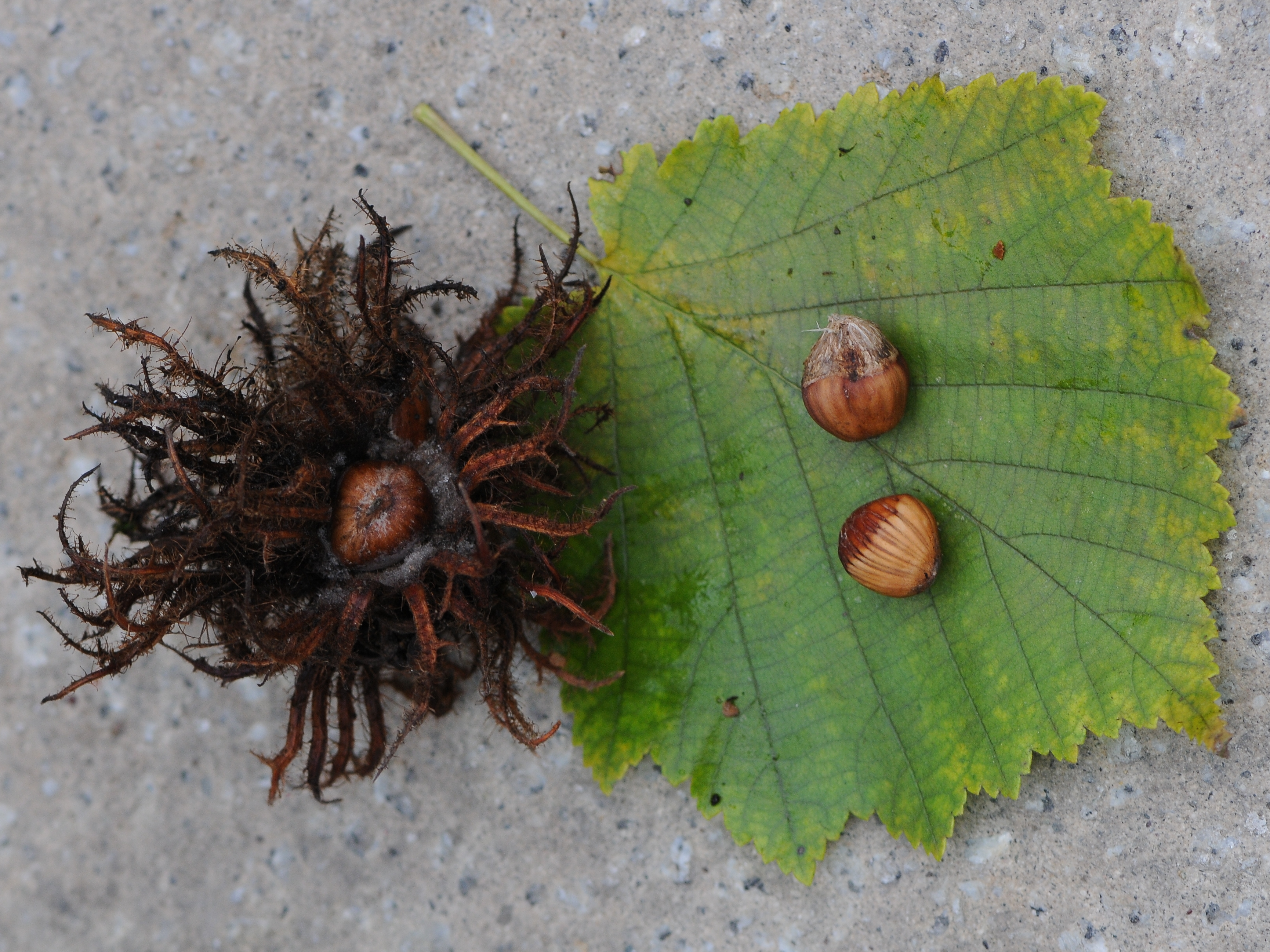 Corylus colurna